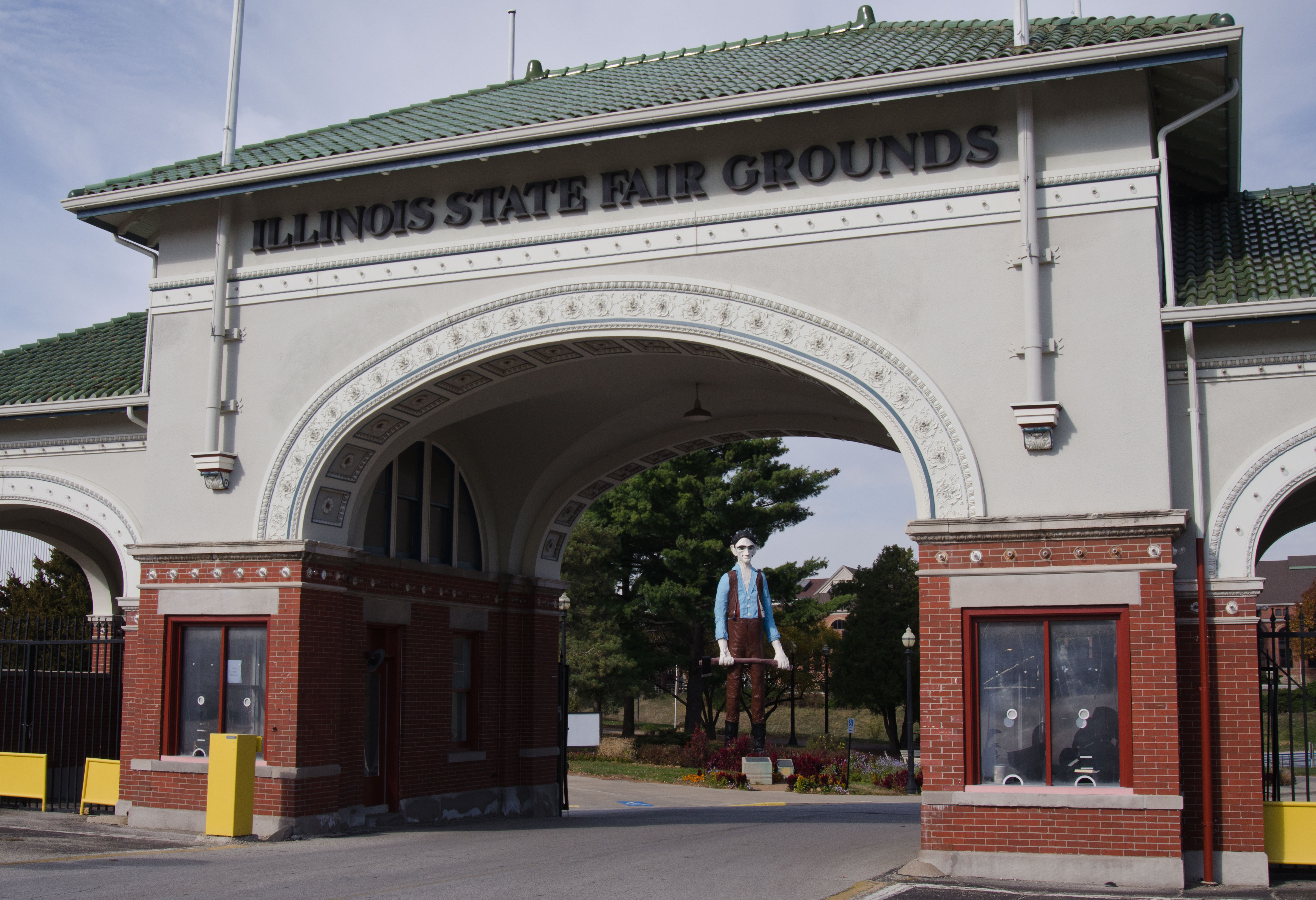 The Illinois State Fair Grounds is where the U.S. Department of Agriculture National Agricultural Statistics Service office (not seen) is located, in Springfield, IL, on Wednesday, November 2, 2011. USDA Photo by Lance Cheung.